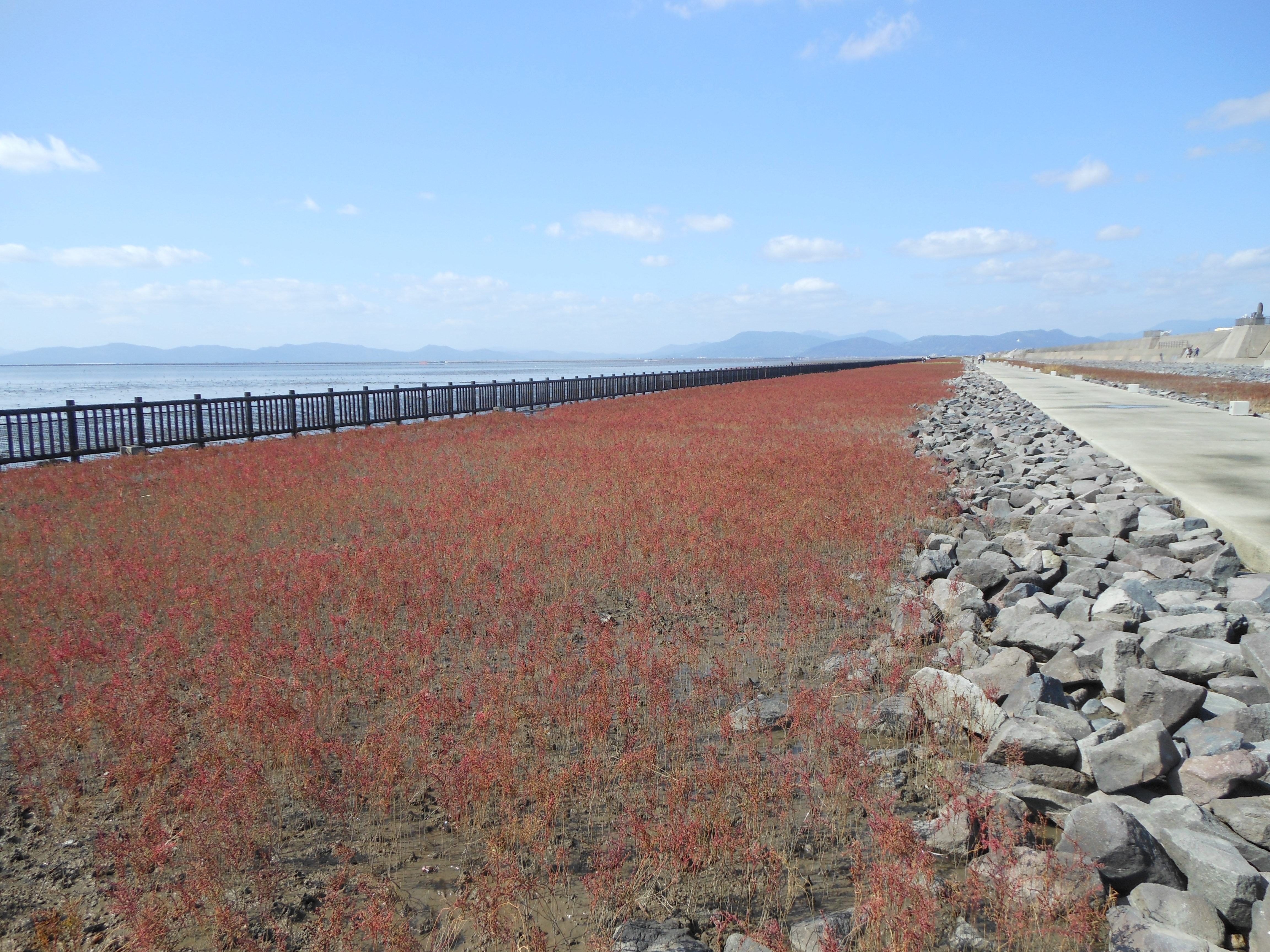 Suaeda japonica's fields of Higashiyoka Coast, Saga city, Saga prefecture, Japan.